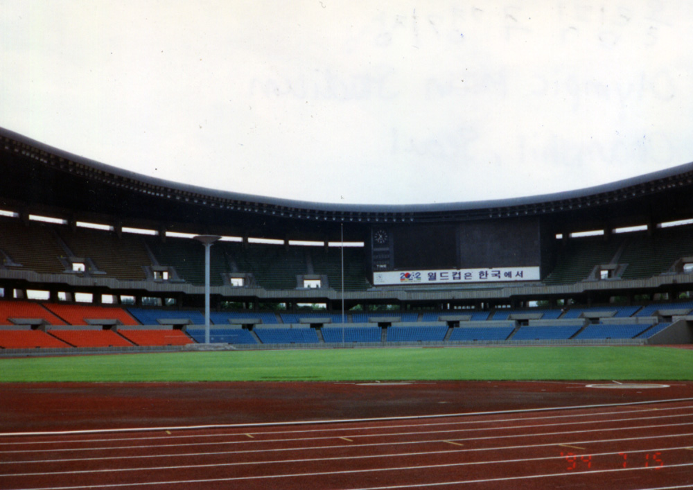 Although I don't think I was supposed to be allowed onto the field, I have entered the field area of Olympic Stadium in Chamshil (Jamsil). Under the electronic display, a banner says "FIFA World Cup 2002 should be held in Korea." South Korea was bidding to host the event, after having confidently hosted the 1988 Summer Olympics; Japan was the main competition for the bid. In 1996, the two countries were given joint hosting rights. As this photo dates from 1994, titles are done in the internationally accepted McCune-Reischauer Romanization that South Korea used at this time, with Revised Romanization, South Korea's current Romanization system, in parentheses for cross-reference.